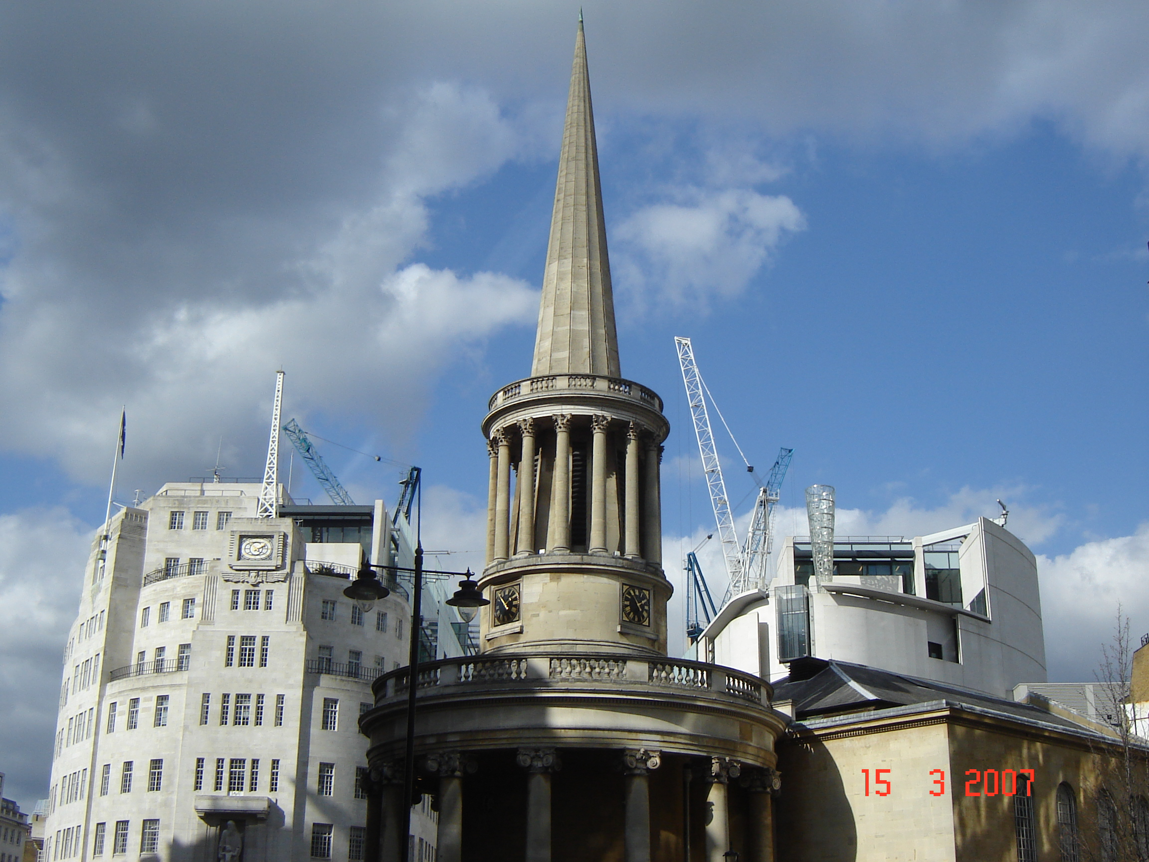 Regent Street, London showing Broadcasting House (left), All Souls Church and the new BBC Egton Wing designed by MacCormac Jamieson Prichard. The funnel shape on the Egton building supposedly echoes the spire of All Souls.